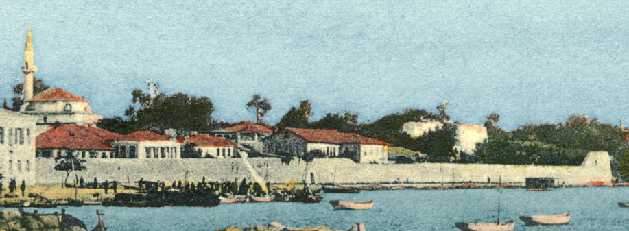 The outer sea wall of St. Andrew's castle, Preveza, Greece. Photograph of c. 1920